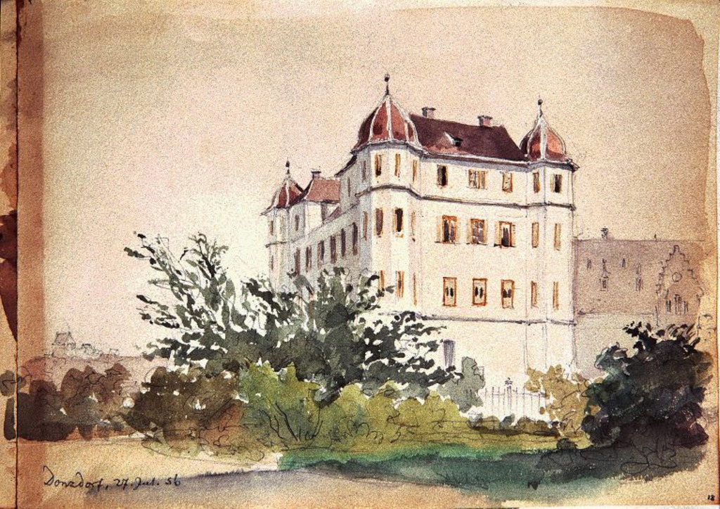 Blick zum Donzdorfer Schloss (Aquarell)